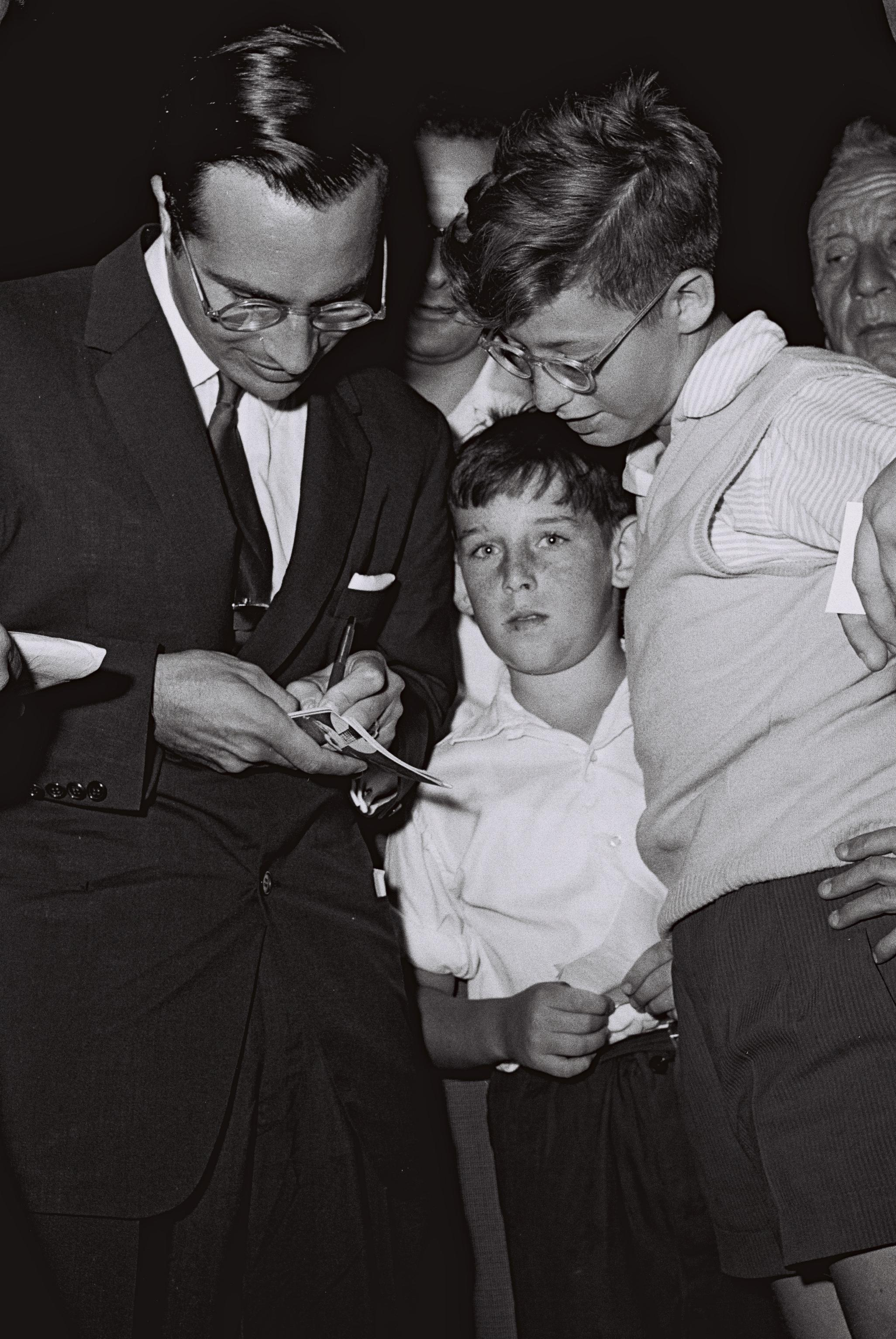 Ogden Reid, US Ambassador to Israel, signing autographs at a US U.S. Independence Day reception in Tel Aviv